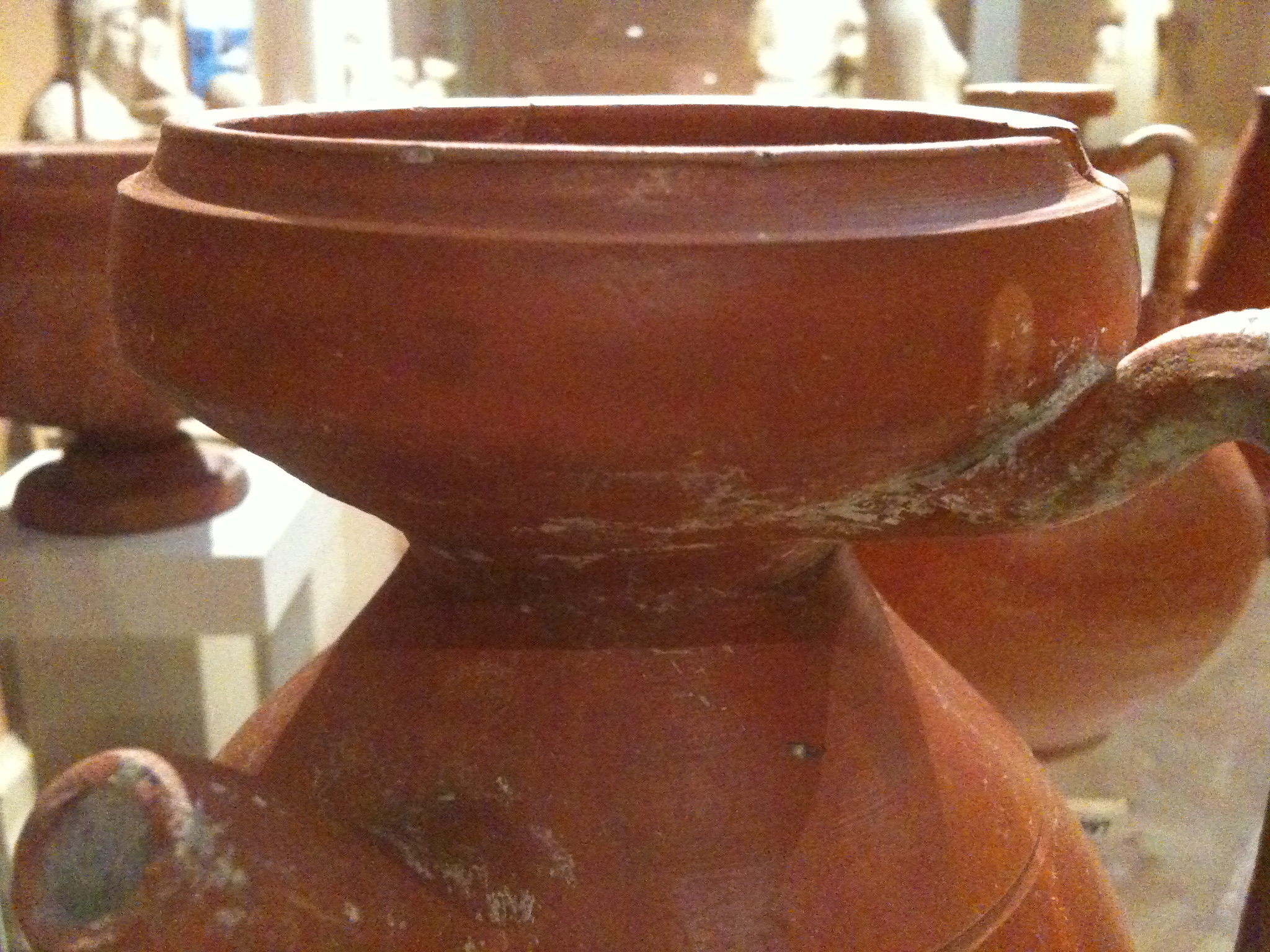 Cypriot sigillata (ESD) jug in the Metropolitan Museum, New York.